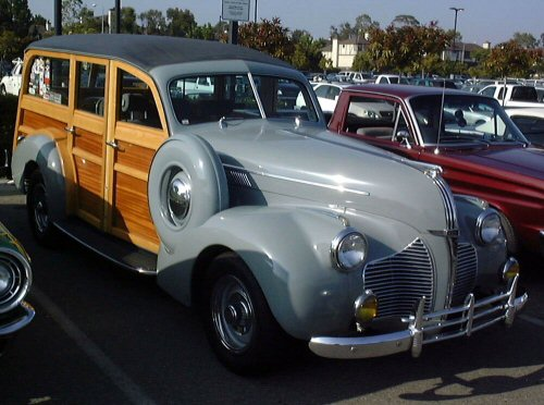 1940 Pontiac Special Series 25 woodie. Photo taken by User:Morven and released here under the GFDL. Information about this specific car at claims it is one of eight remaining Pontiac woodies and that its engine is a 468 Big Block Chevy, 750 Holley, 4L80E overdrive trans, with an estimated top speed w/o spare tire of 150 MPH.